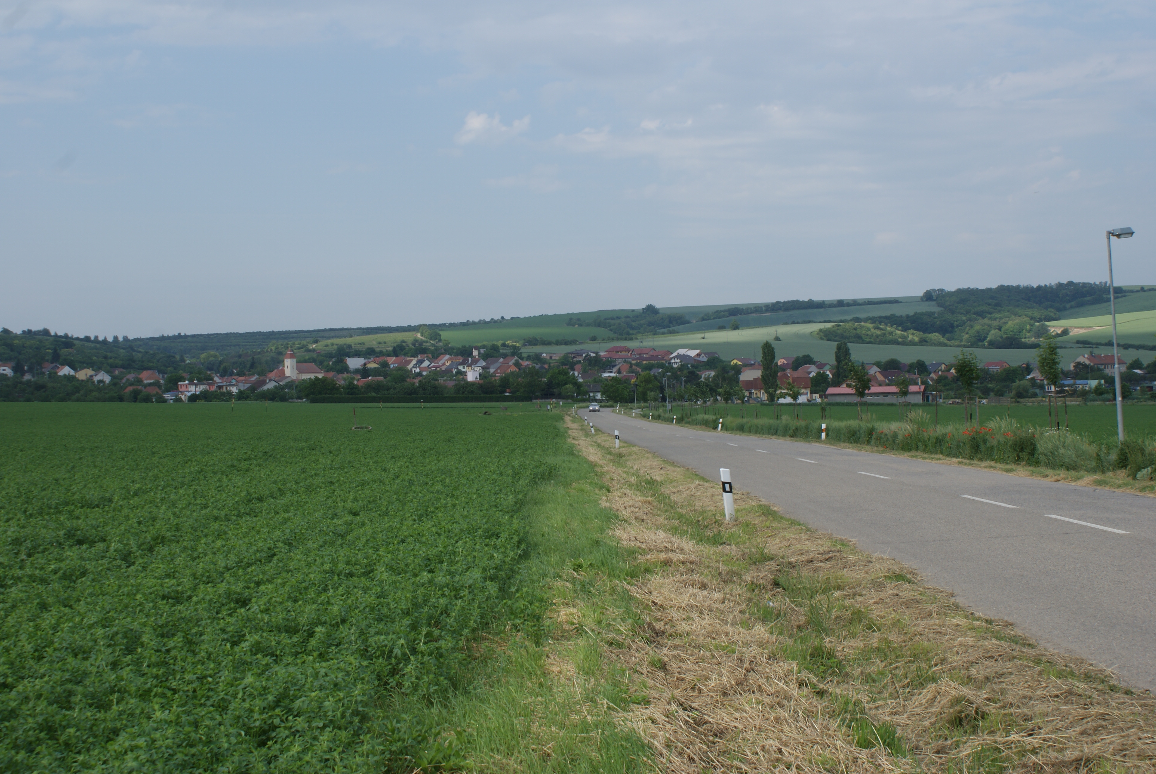 Starovice, a village in Břeclav District, Czech Rep., general view.